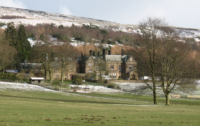 Kepwick Hall, Kepwick, N. Yorks.